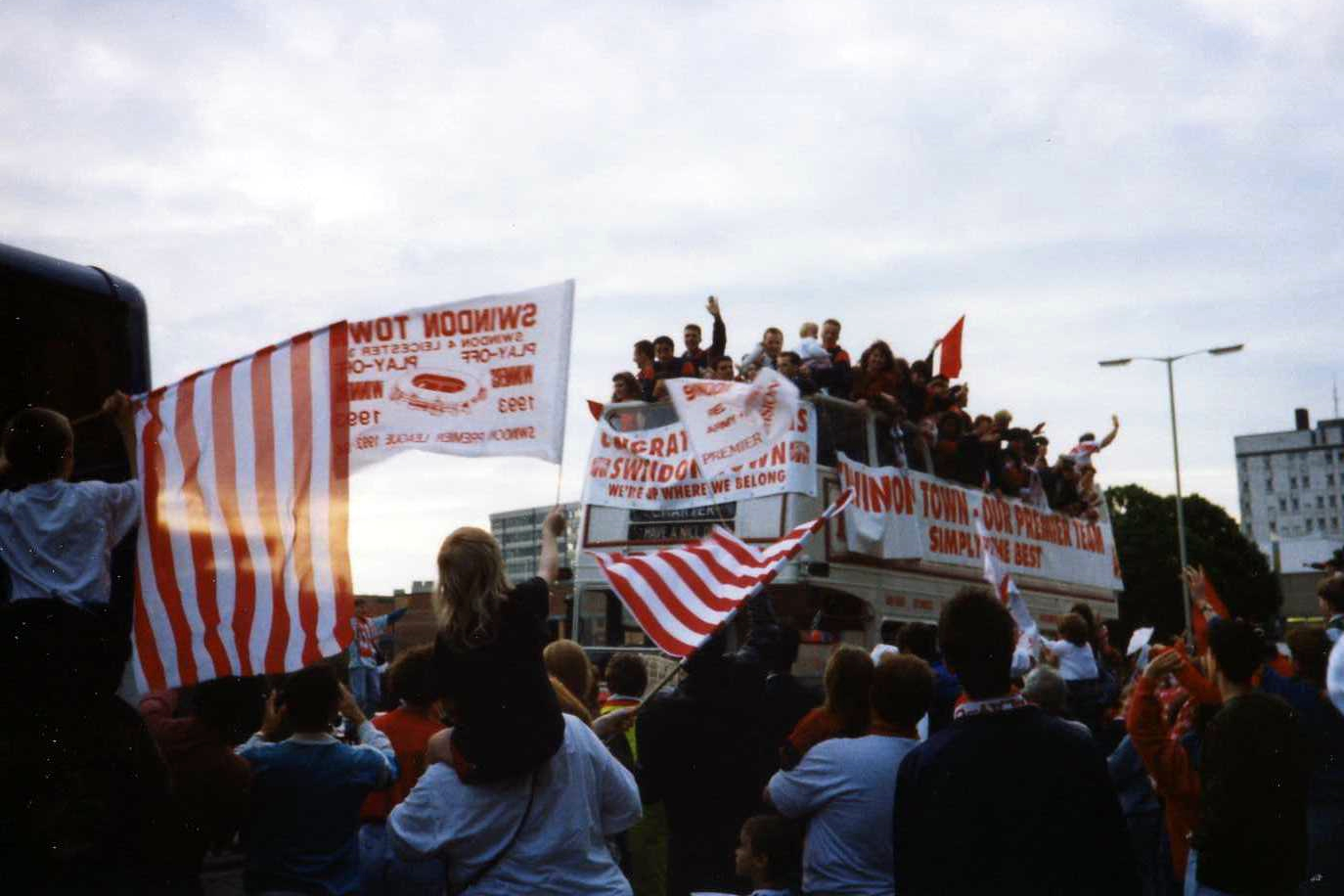 Victory parade of Swindon Town F.C. celebrating promotion to the Premier League in 1993.